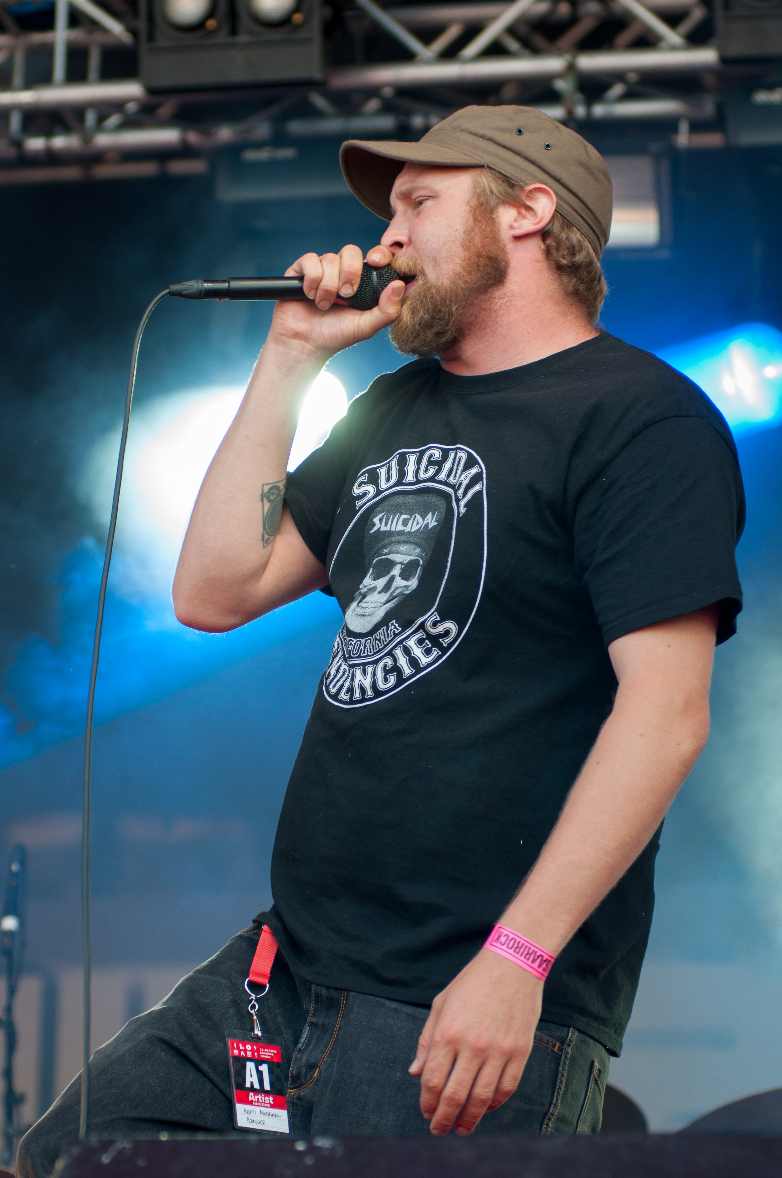 Finnish rapper Paleface performing at the 2012 Ilosaarirock festival in Joensuu, Finland.